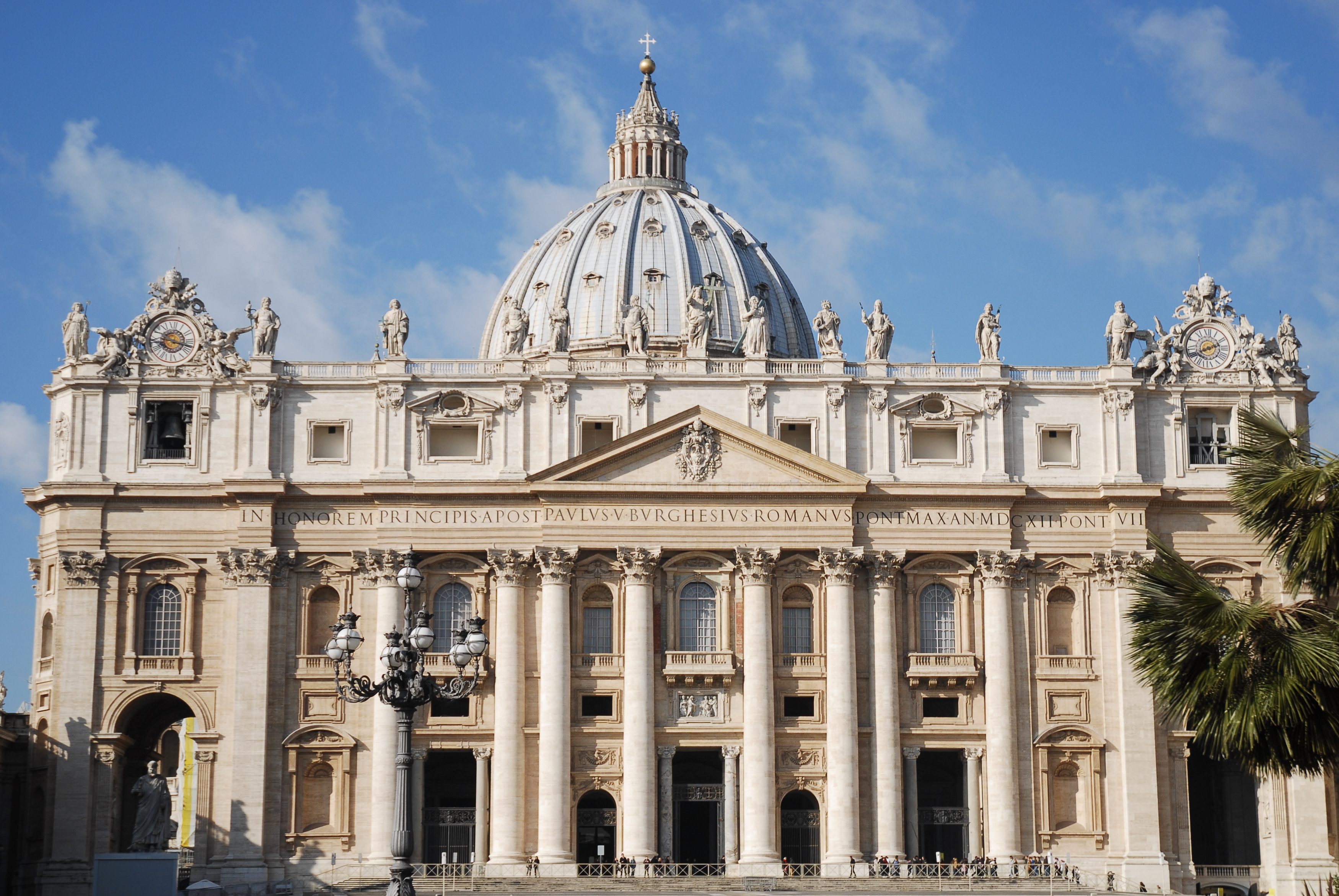 St. Peter's Basilica view from Saint Peter's Square, Vatican City, Rome, Italy.